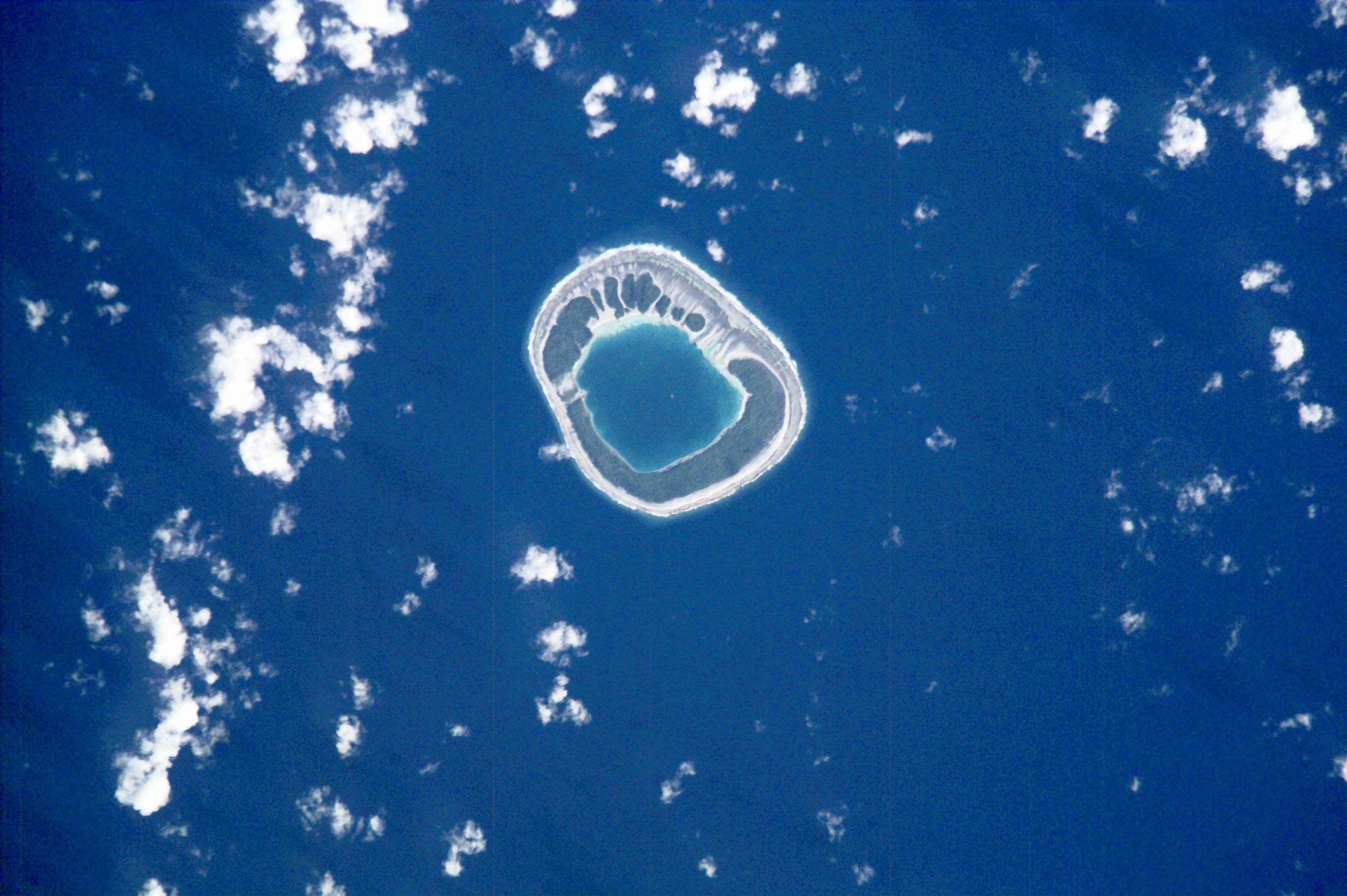 TUAMOTU ARCHIPELAGO/TENARARO, GROUPE ACETON